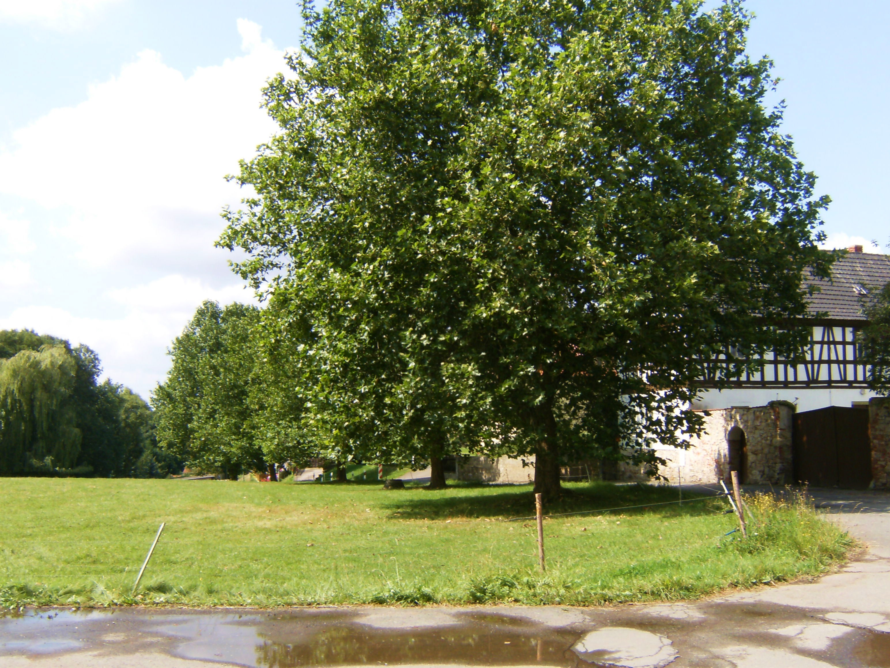 Gera Dürrenebersdorf, in the village.